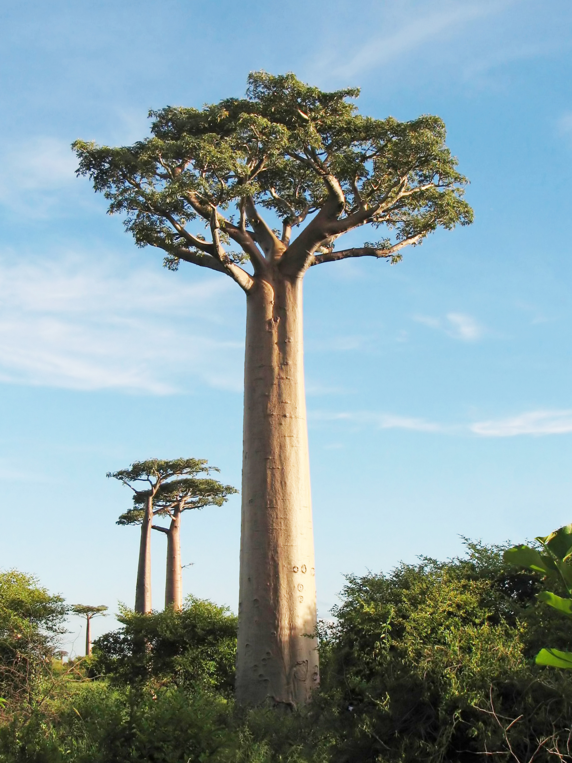 Grandidier's Baobab, near Morondava, Madagascar